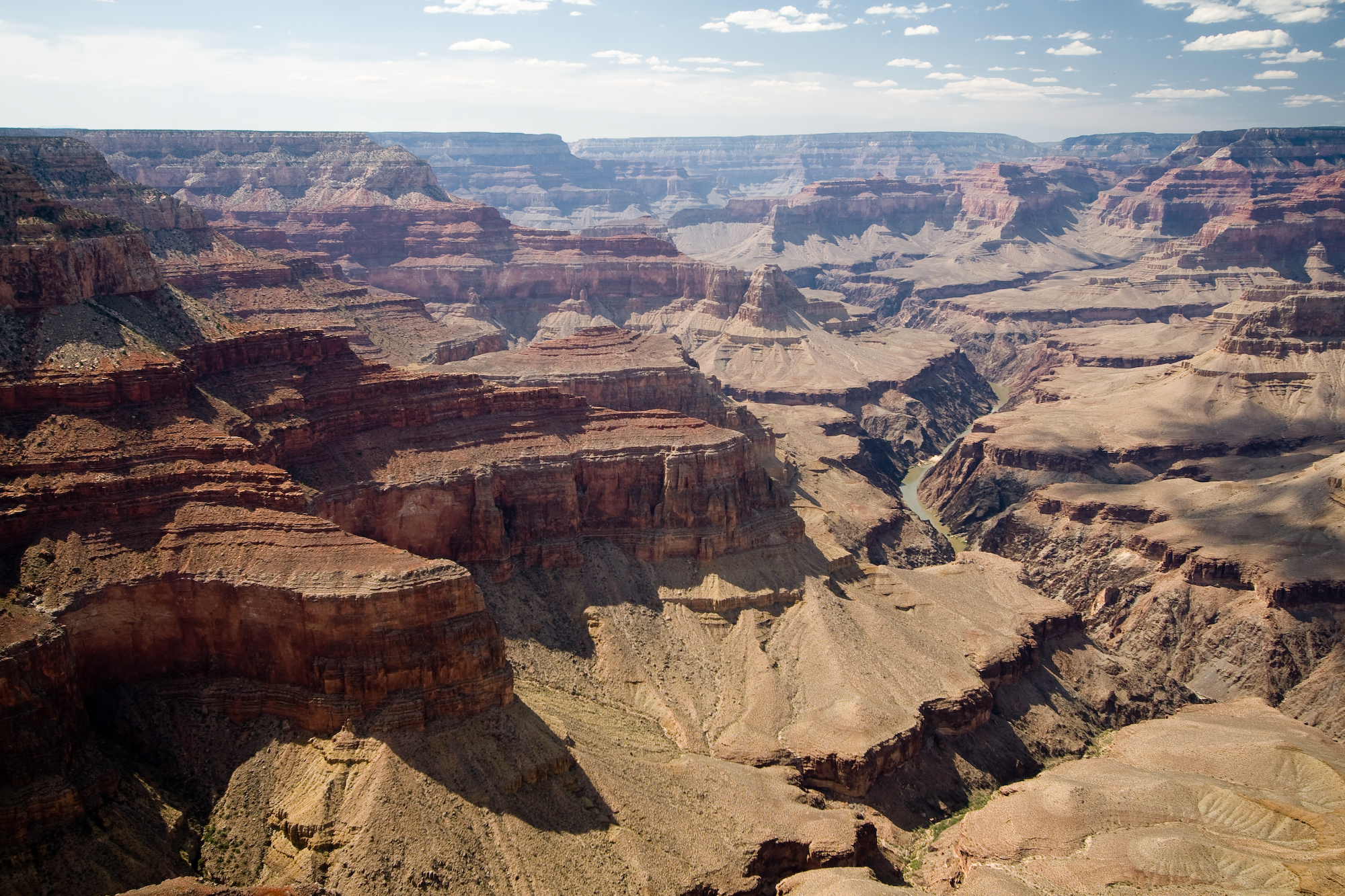 Grand Canyon, Arizona. The Grand Canyon is a very colorful, steep-sided gorge, carved by the Colorado River in the U.S. state of Arizona. (View of Horn Creek Rapid (Mile 90.2, at Horn Creek, view from Plateau Point) -- Ninetyone Mile Creek and Trinity Creek next major watercourses directly downstream, from North Rim side, in view, in front of Tower of Set prominence)